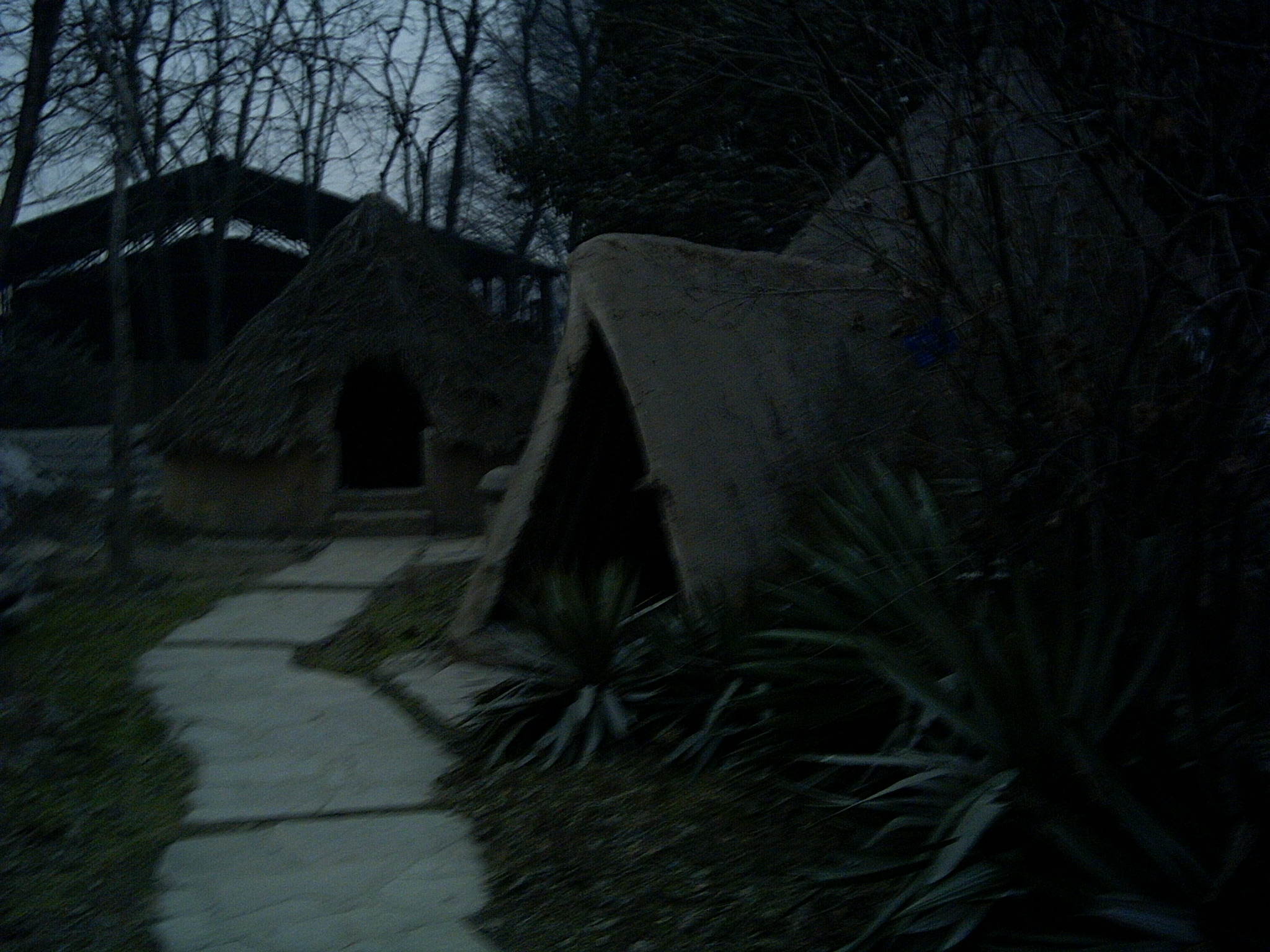 Reconstructed village of Banpo, Shaanxi, China, near Xi'an.